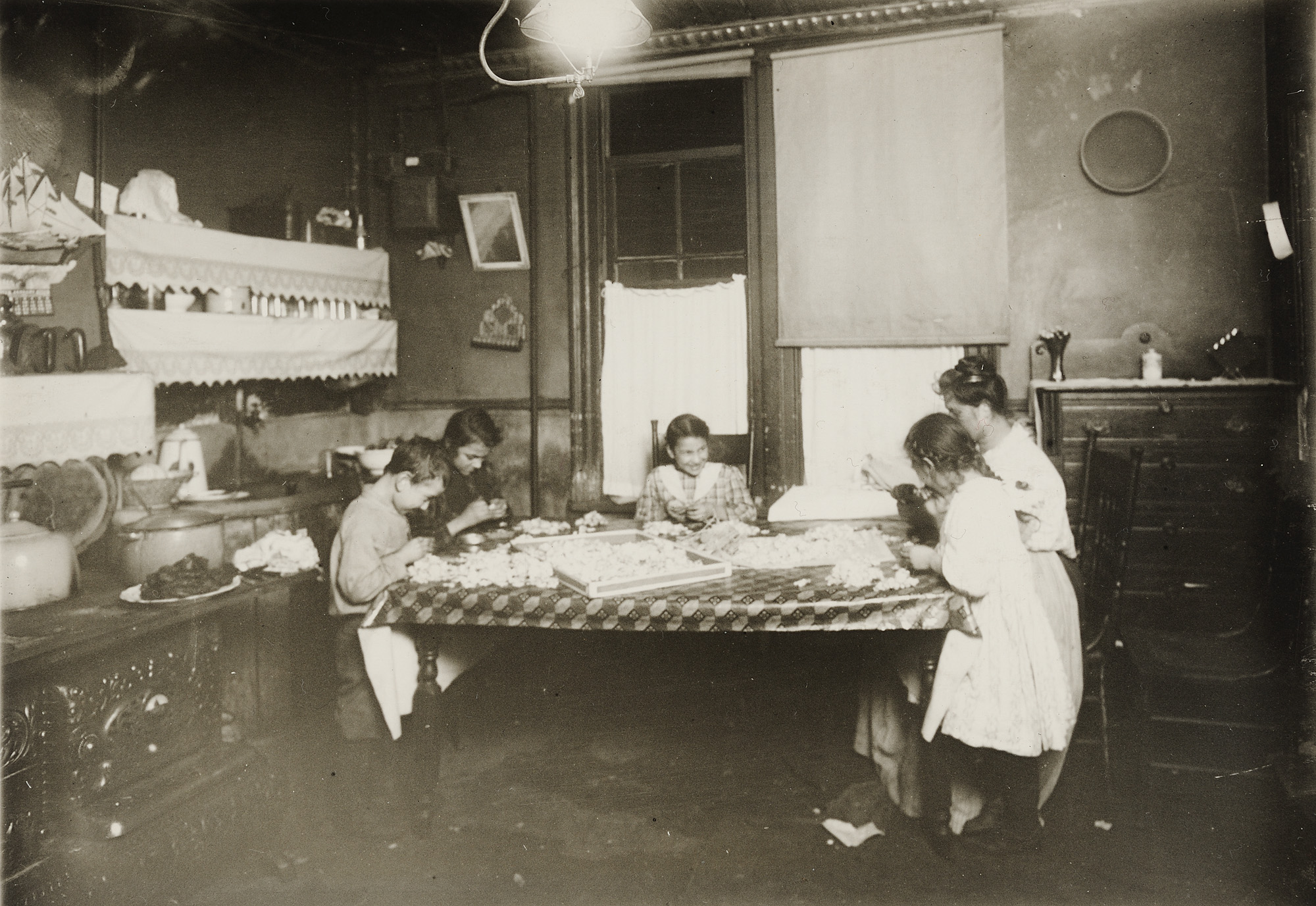 Child labor in the United States, early 20th century Courtesy: Preus museum; Library of Congress; National Child Labor Committee Collection. Hine, Lewis Wickes Children working at night. Lamp glows at the ceiling. 7:30 P.M. January 29, 1912. Making violets, and they often work later. Pollinni family, 5 Carmine St., New York, NY, living in a rear tenement. The six year old helps some. The eight, ten, and twelve year olds work later than this at times. Brothers, 15 and 17 years old, work in factory. Location: New York, New York (State), USA, 1912. NMFF.003567